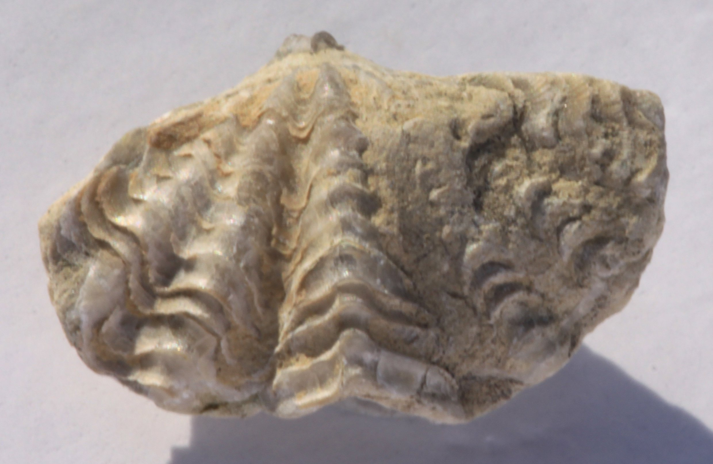 A Spirifer perlamosus lampshell, Order Spiriferida, family Spiriferidae, 19mm along the axis, brachial valve, collected at Rock Crossing on Hickory Creek, Criner Mountains, about 7 miles South of Ardmore, Oklahoma, USA, in the year 1965, from the early Upper Ordovician (Sandbian) (Pooleville Member, Bromide Formation, Simpson Group, Black River Series)